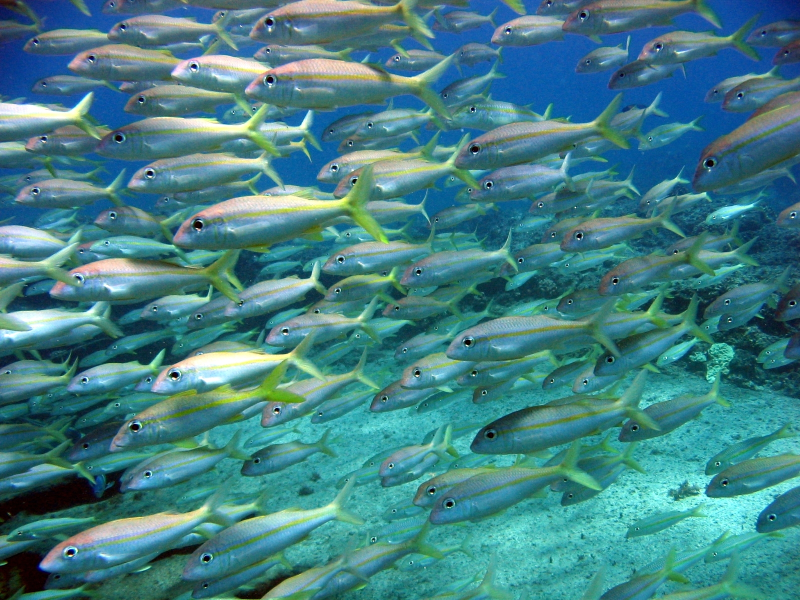 A school of yellow-tailed goatfish (Mulloidichthys flavolineatus) Image ID: reef0653, NOAA's Coral Kingdom Collection Location: Northwest Hawaiian Islands